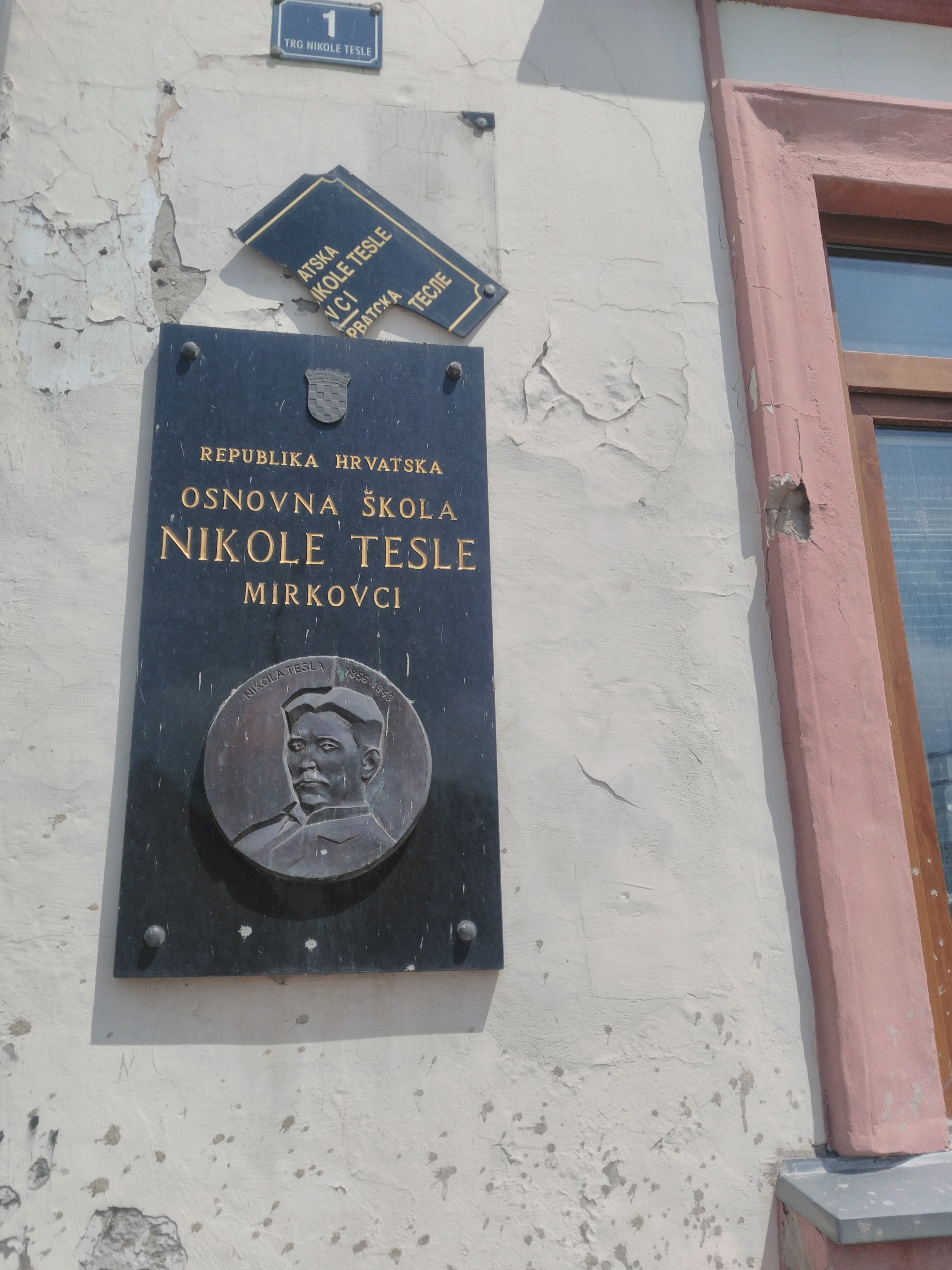 Broken bilingual Croatian-Serbia plate at the Elementary School Nikola Tesla in Mirkovci